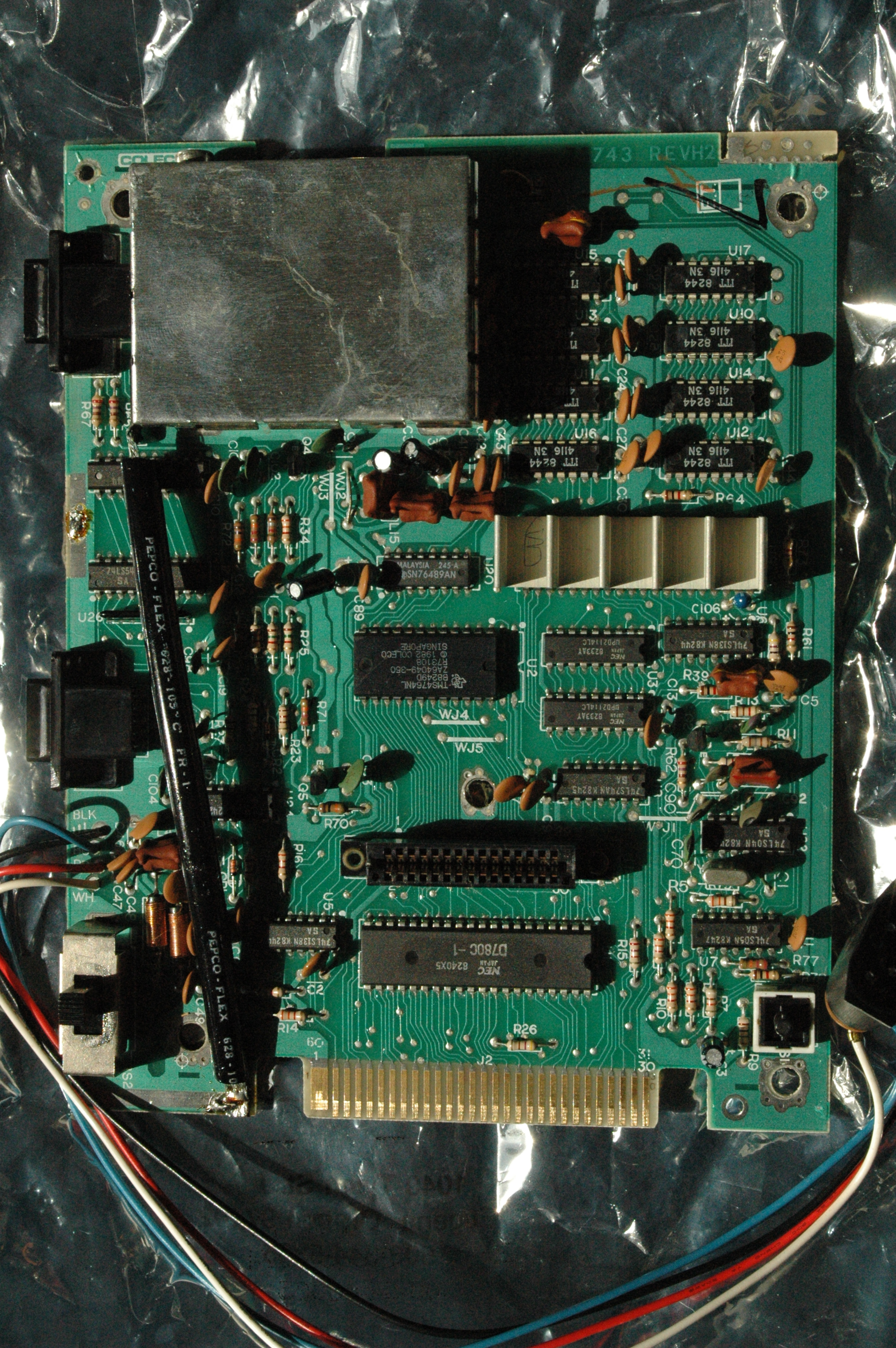 A picture of the top-side of the circuit board used in a ColecoVision home video game system of ~1982-1983